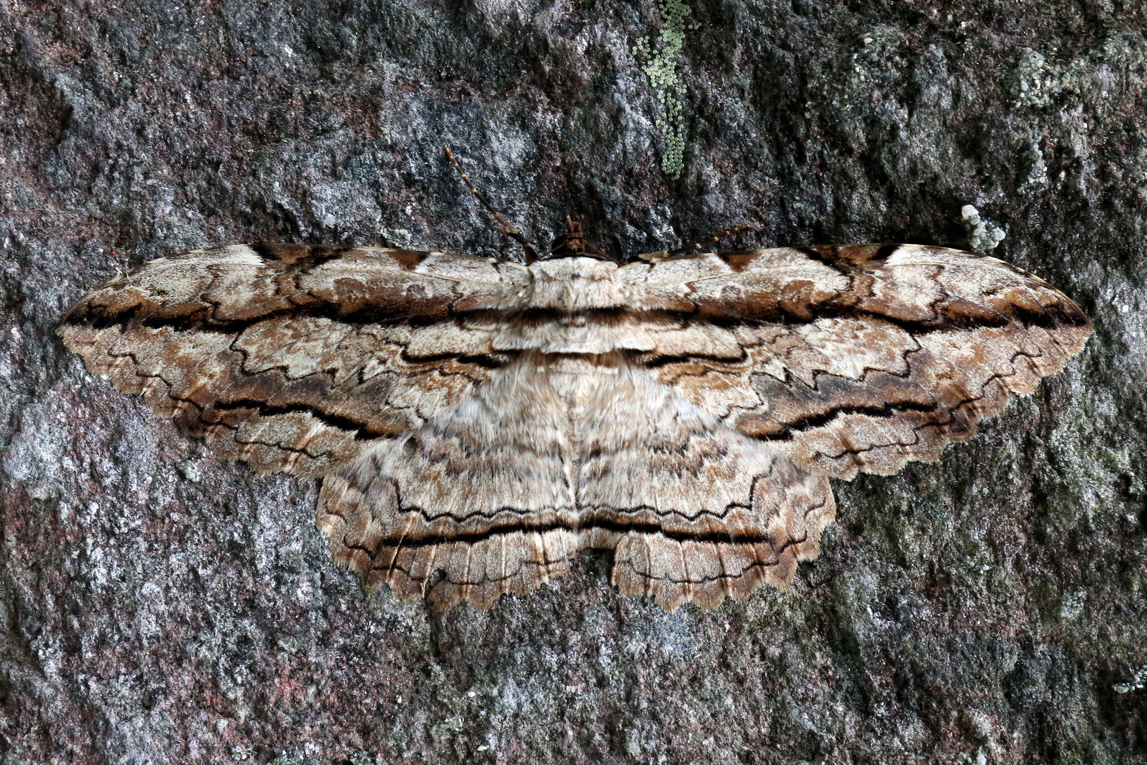 Owl moth (Thysania zenobia), Sao Paulo, Brazil